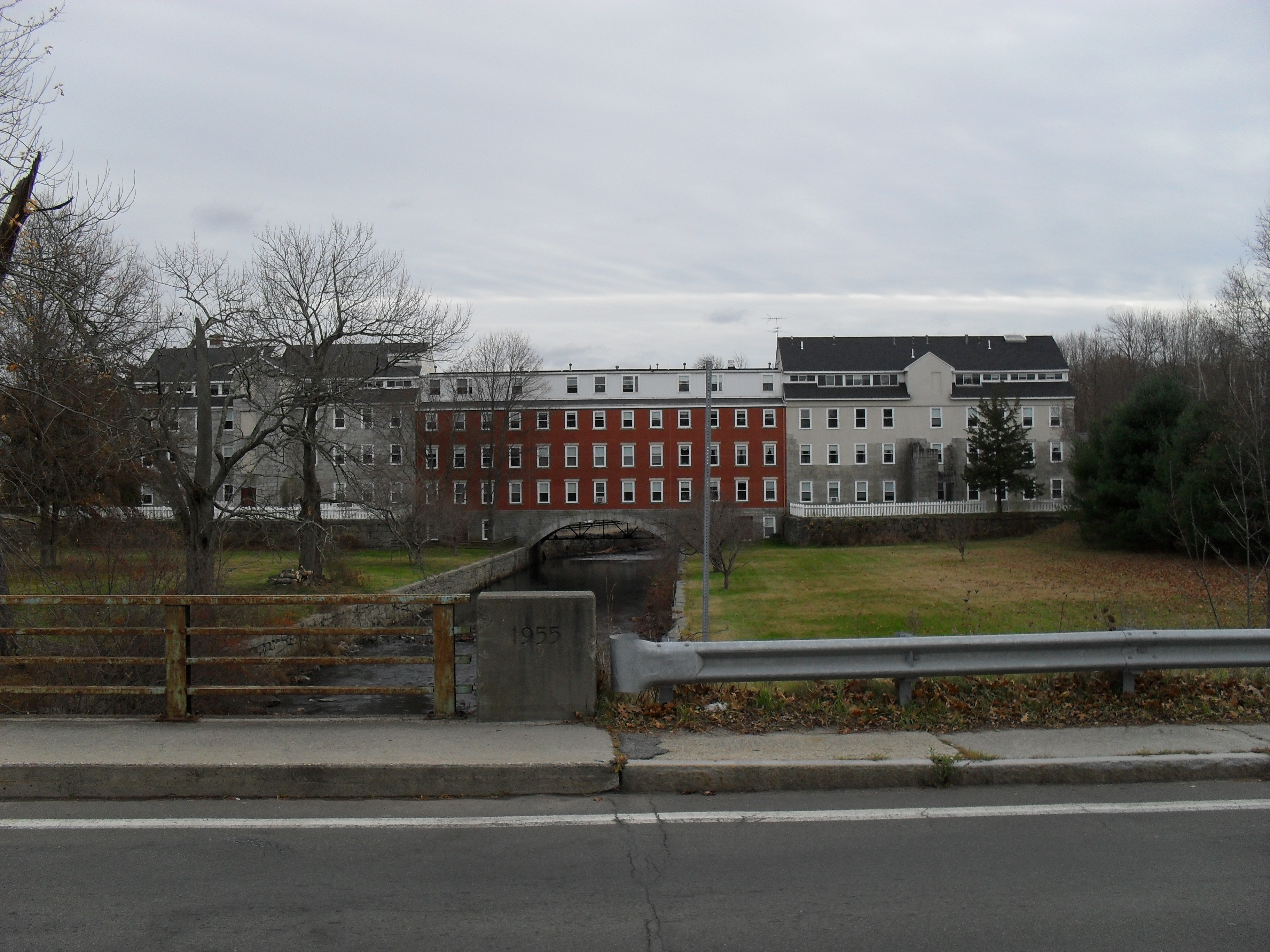 Crown and Eagle Mill, Uxbridge, Massachusetts. Built by Robert Rogerson, 1824-1828. Considered a masterpiece of early American Industrial Architecture. Today serves as Senior Housing.